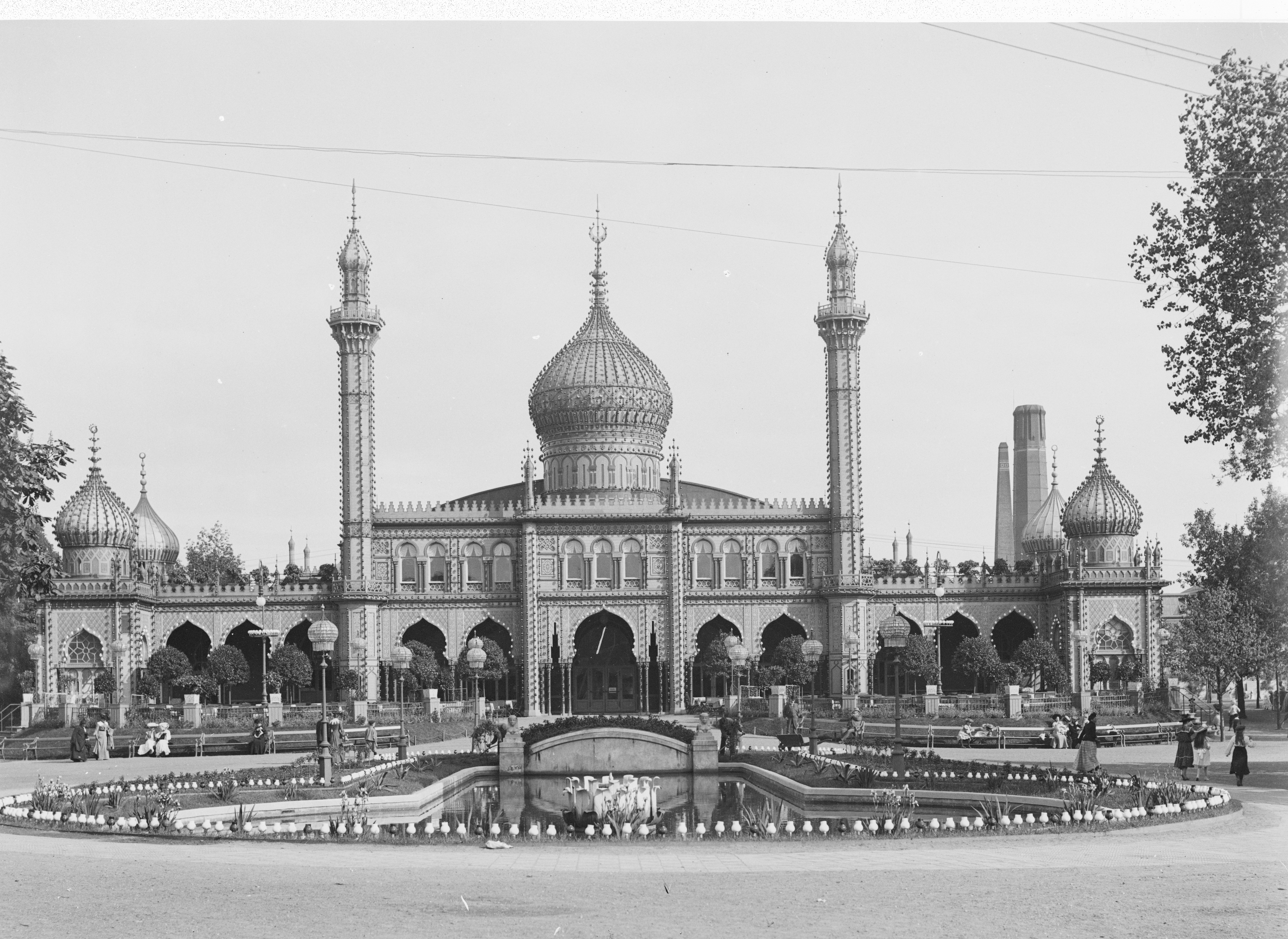 First concert hall (1902-1944) in Tivoli gardens, Copenhagen, Denmark